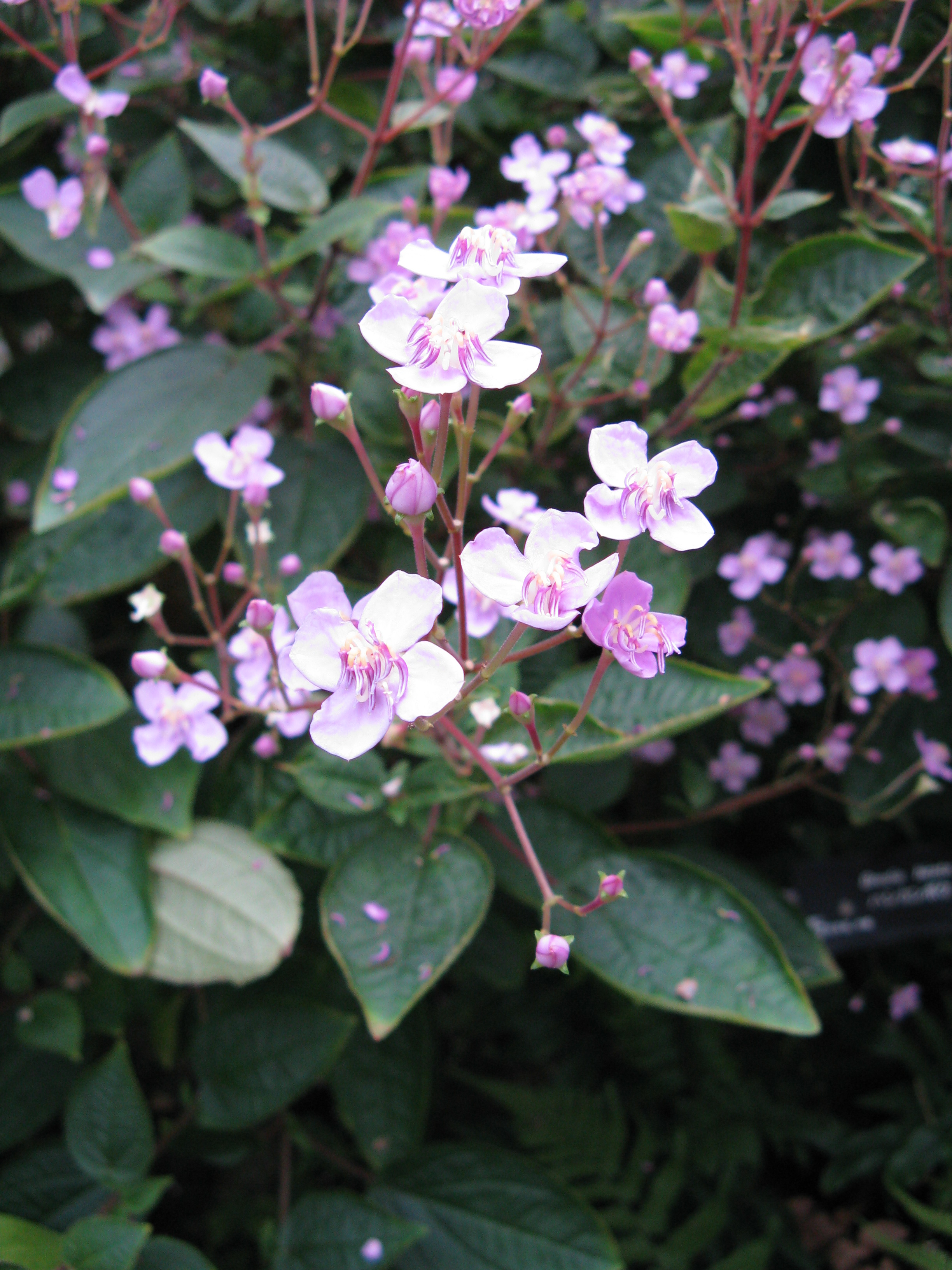 Scientific name Bredia hirsuta